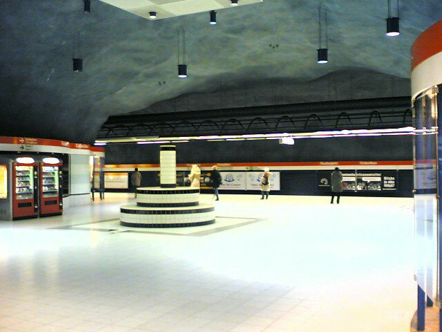 Ruoholahti (Swedish: Gräsviken) metro station, Helsinki